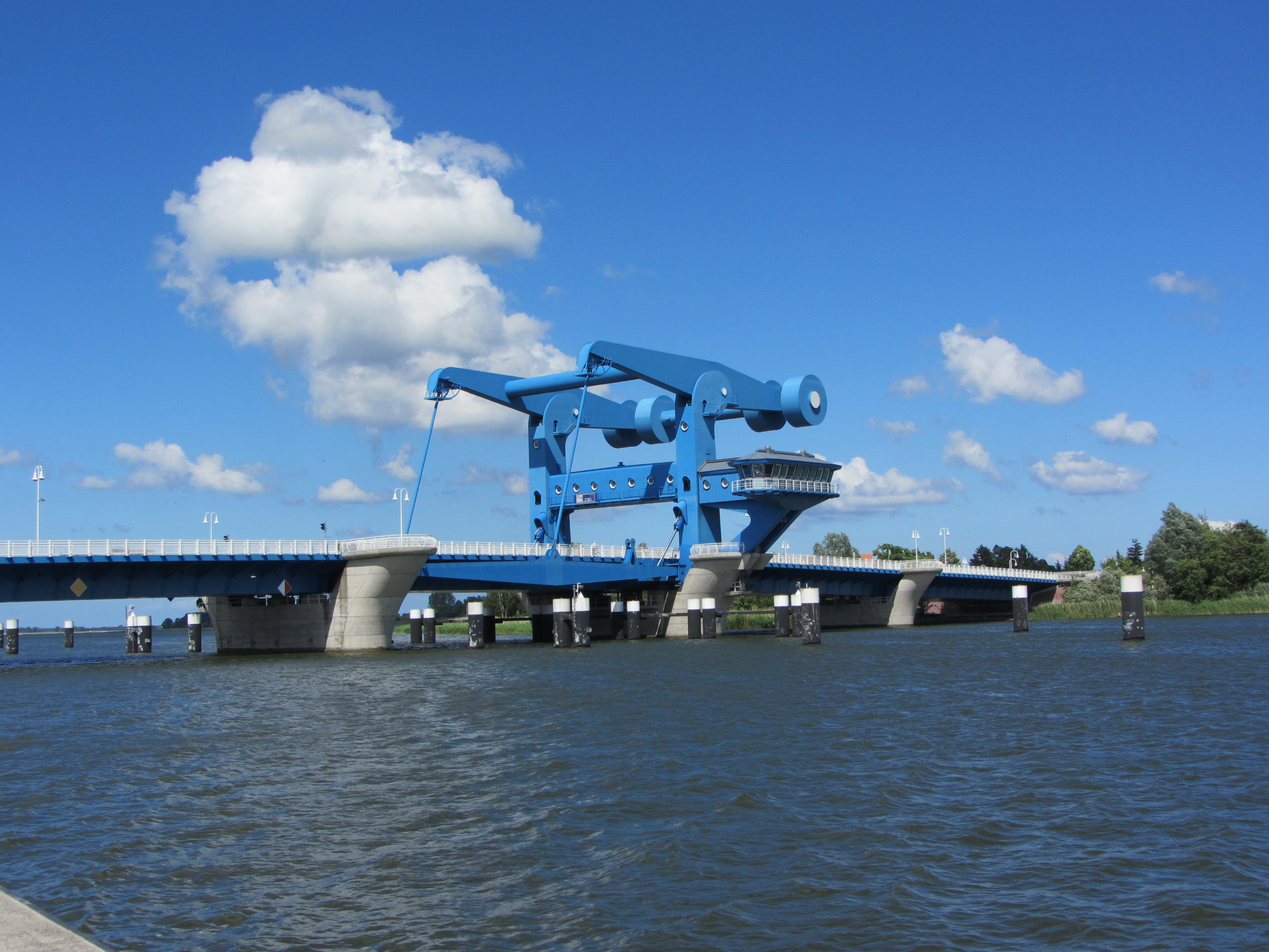 Peene bridge in Wolgast, district Vorpommern-Greifswald, Mecklenburg-Vorpommern, Germany